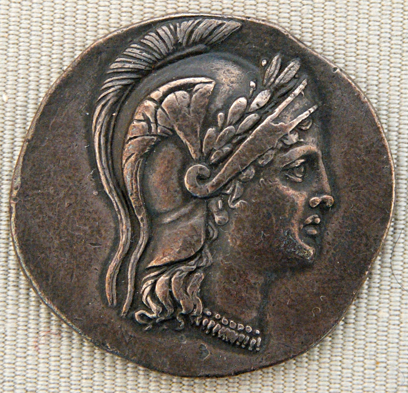 Silver tetradrachm issued by the League of Athena Ilias in Ilion ca. 97–87 BC, obverse: head of Athena wearing a helmet and and a laurel wreath.